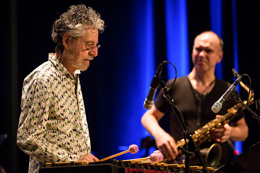 Mike Mainieri and Bendik Hofseth performs at Cosmopolite in Oslo on 04. May 2016. Backed by Jazzcode and later in the concert by Cosmopolitans. The musicians had earlier that week recorded three albums in a studio in Oslo.Lineup:Mike Mainieri (vibraphone)Bendik Hofseth (tenor saxophone)Jørn Øien (piano)Bruno Raberg (double bass)Sidiki Camara (percussion)Carl Størmer (drums)Jacob Young (guitar)Helge Iberg (piano)Paolo Vinaccia (percussion)